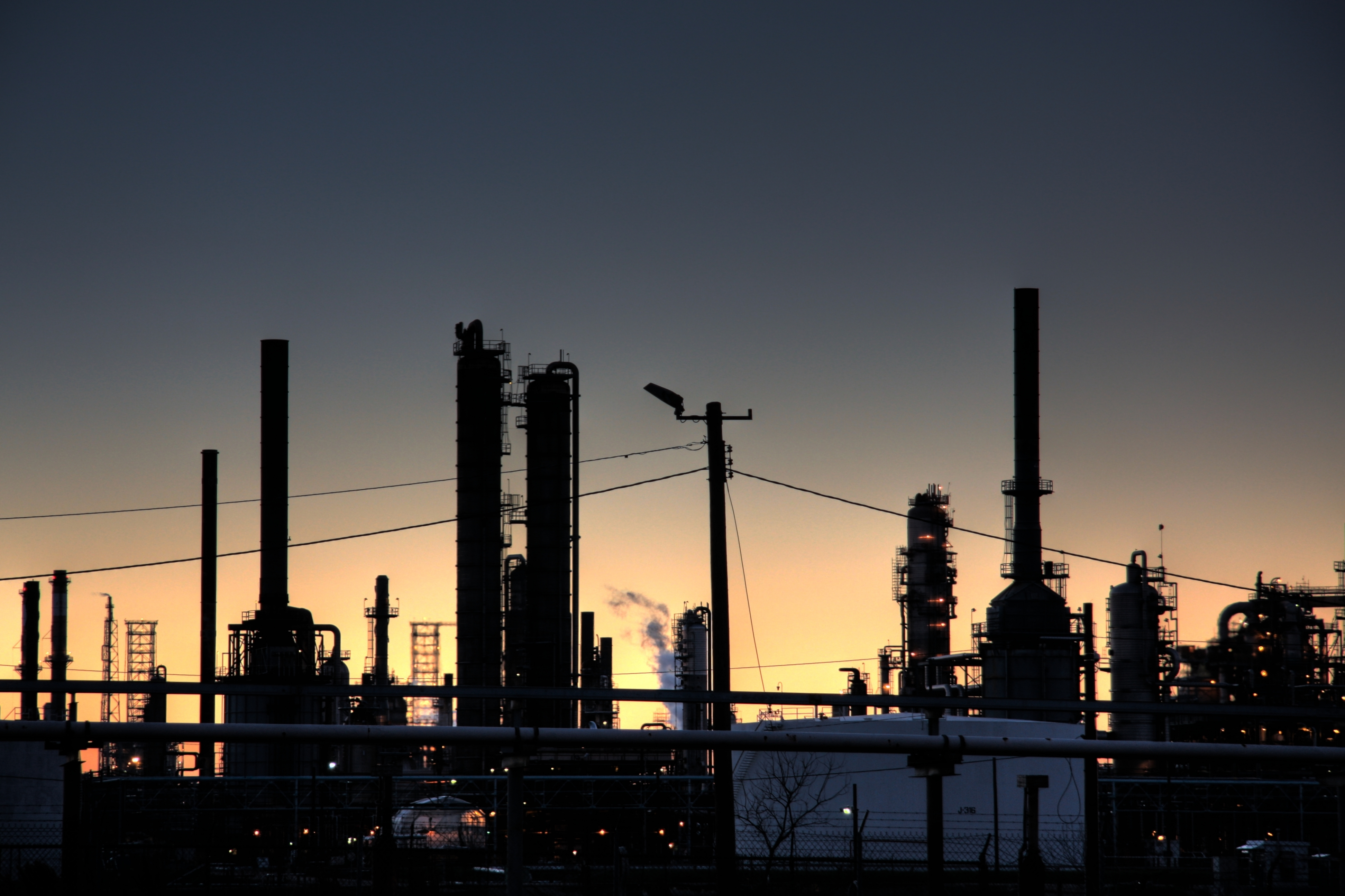 ريسوت الصناعية